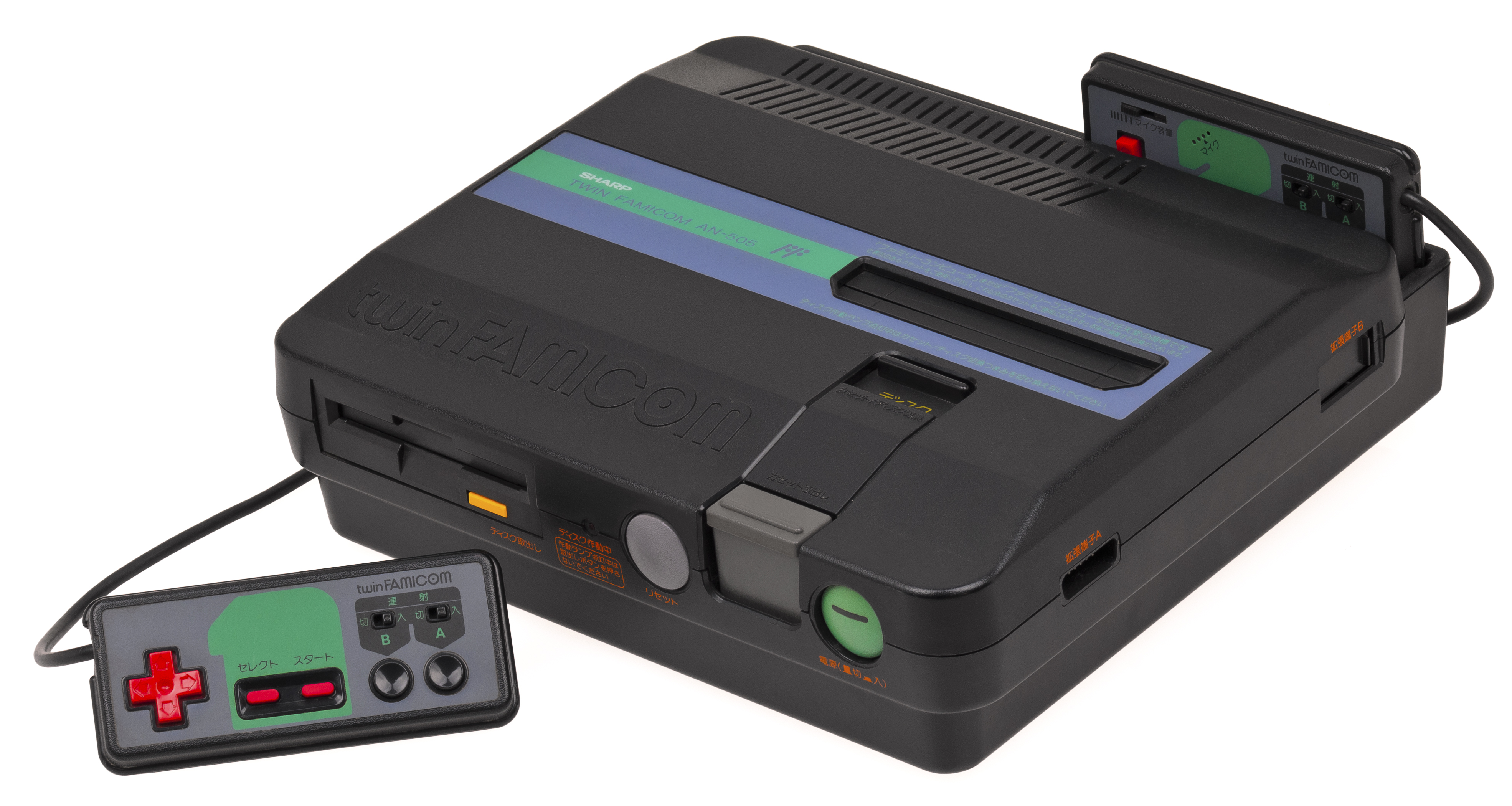 A Twin Famicom video game console, made by Sharp and released only in Japan. This console combines the Famicom (NES in America) and the Famicom Disk System into one console.